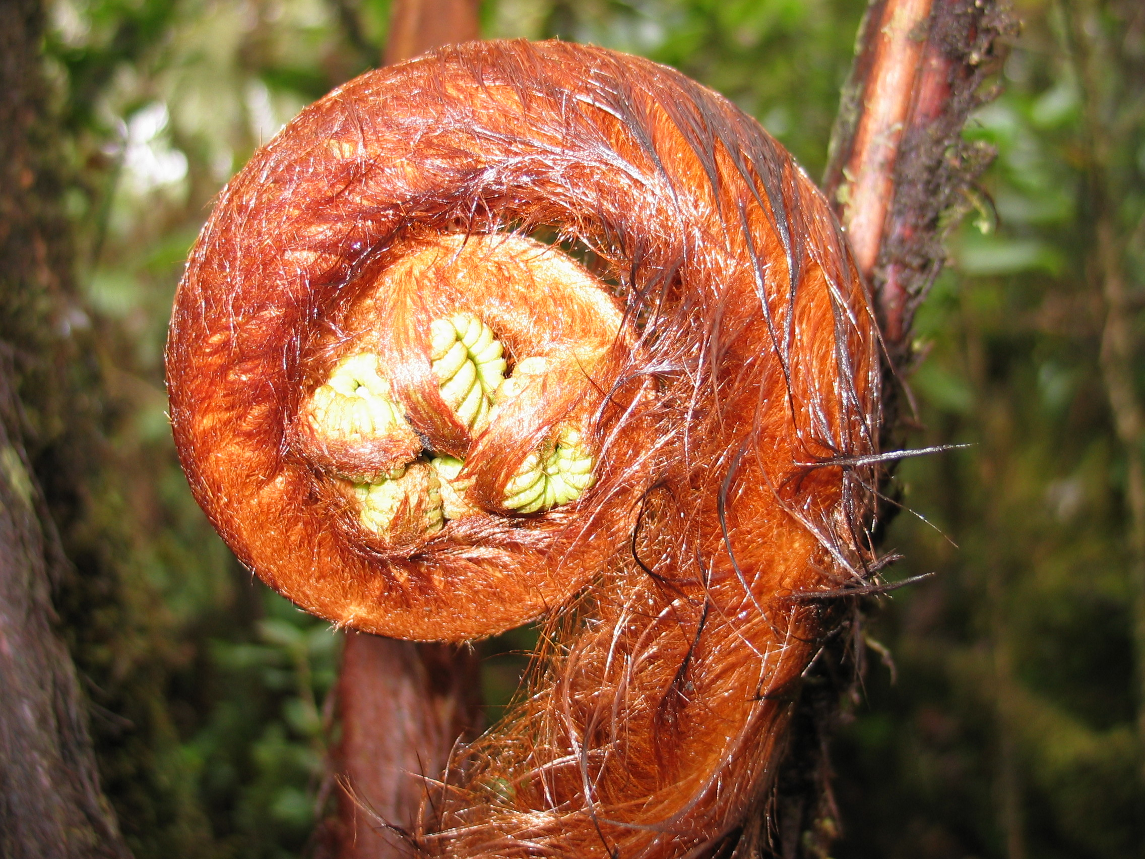 Hāpuʻu ʻiʻi, Hāpuʻu or Hawaiian tree fern Cibotiaceae Endemic to the Hawaiian Islands Mt. Kaʻala, Oʻahu Hawaiians, both long ago as well as in recent times, ate the uncoiled fronds (fiddles), which were considered delicious when boiled. The starchy core, though, was famine food. It was considered the most important food in lean times and one trunk may contain 50-70 pounds of almost pure starch. This was used for human as well as pig consumption. It was prepared by peeling the young fronds or placing the entire trunk with the starchy center in an ʻimu or in steam vents at the volcano. The saying was "He hāpuʻu ka ʻai he ai make" (If the hāpuʻu is the food, it is the food of death). NPH00003